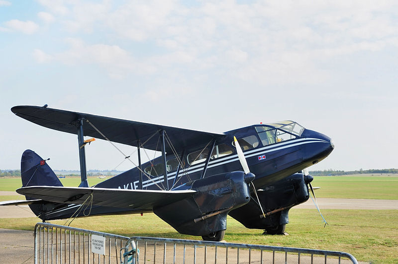 de Havilland Dragon Rapide at Duxford Aerodrome, UK